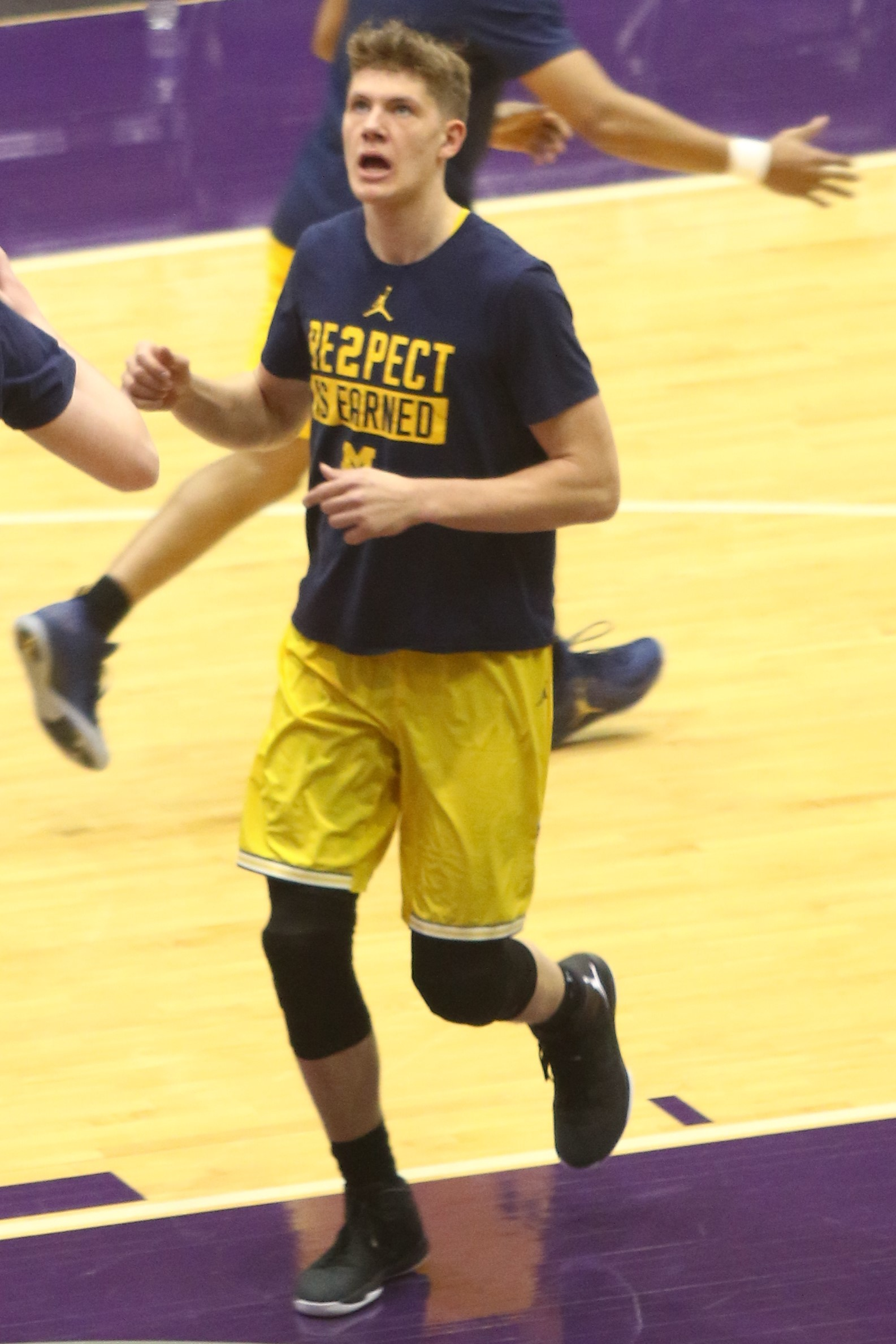 Moe Wagner of the w:2016–17 Michigan Wolverines men's basketball team